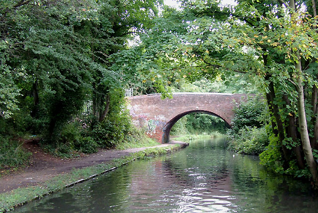 Warstock Lane Bridge, Birmingham This is Bridge No 4 on the Stratford-upon-Avon Canal. The lane crossing the canal links the Warstock with Billesley Common areas of Birmingham..